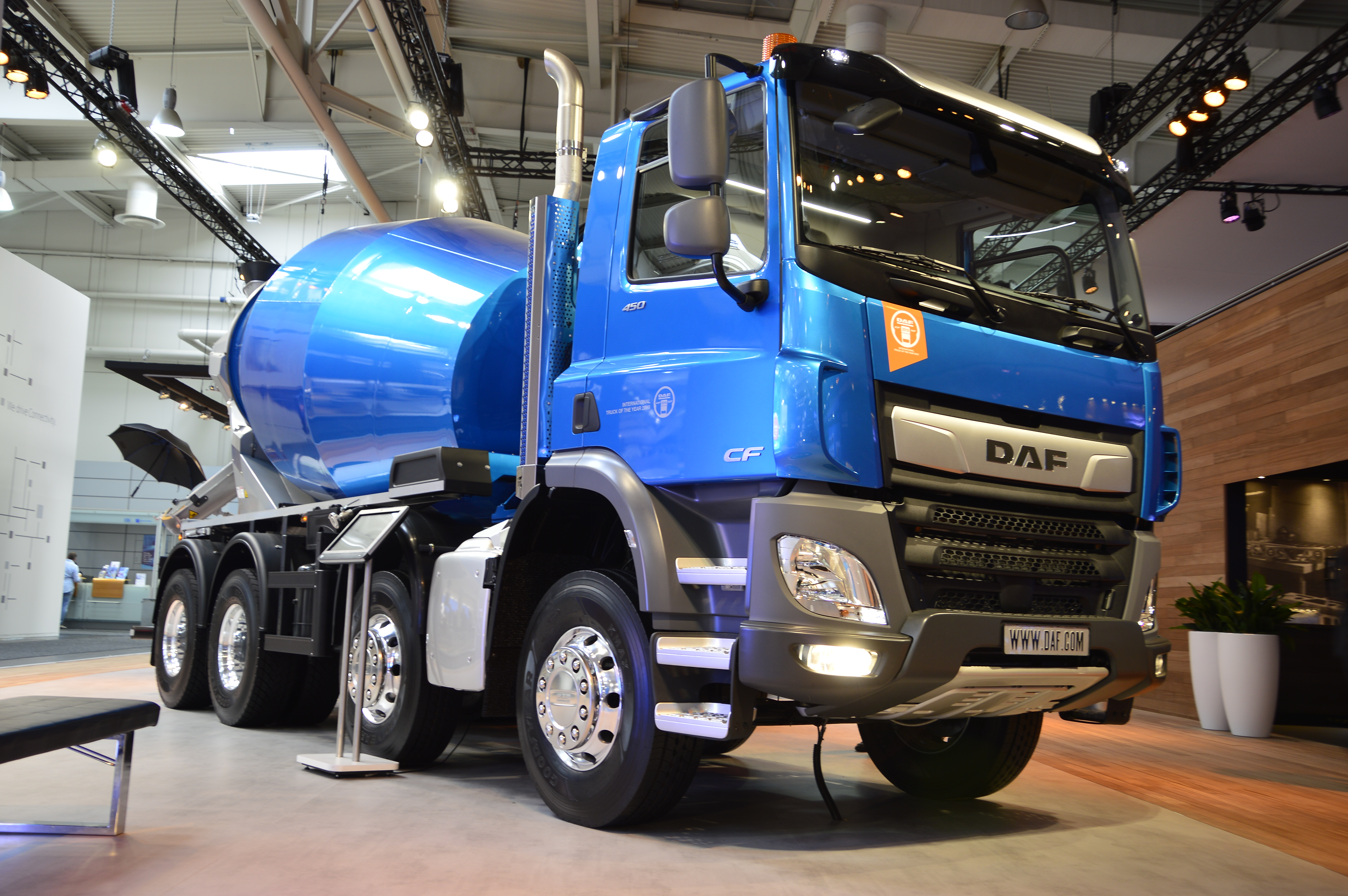 DAF CF 450 FAD Cement mixer. 8 x 4 axle configuration. Engine: Paccar MX-11 Euro 6. Photo taken at IAA 2018. Photo without further processing yet.